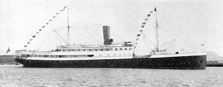 Norwegian coastal express ship (Hurtigruten) DS Sanct Svithun, built in 1927.